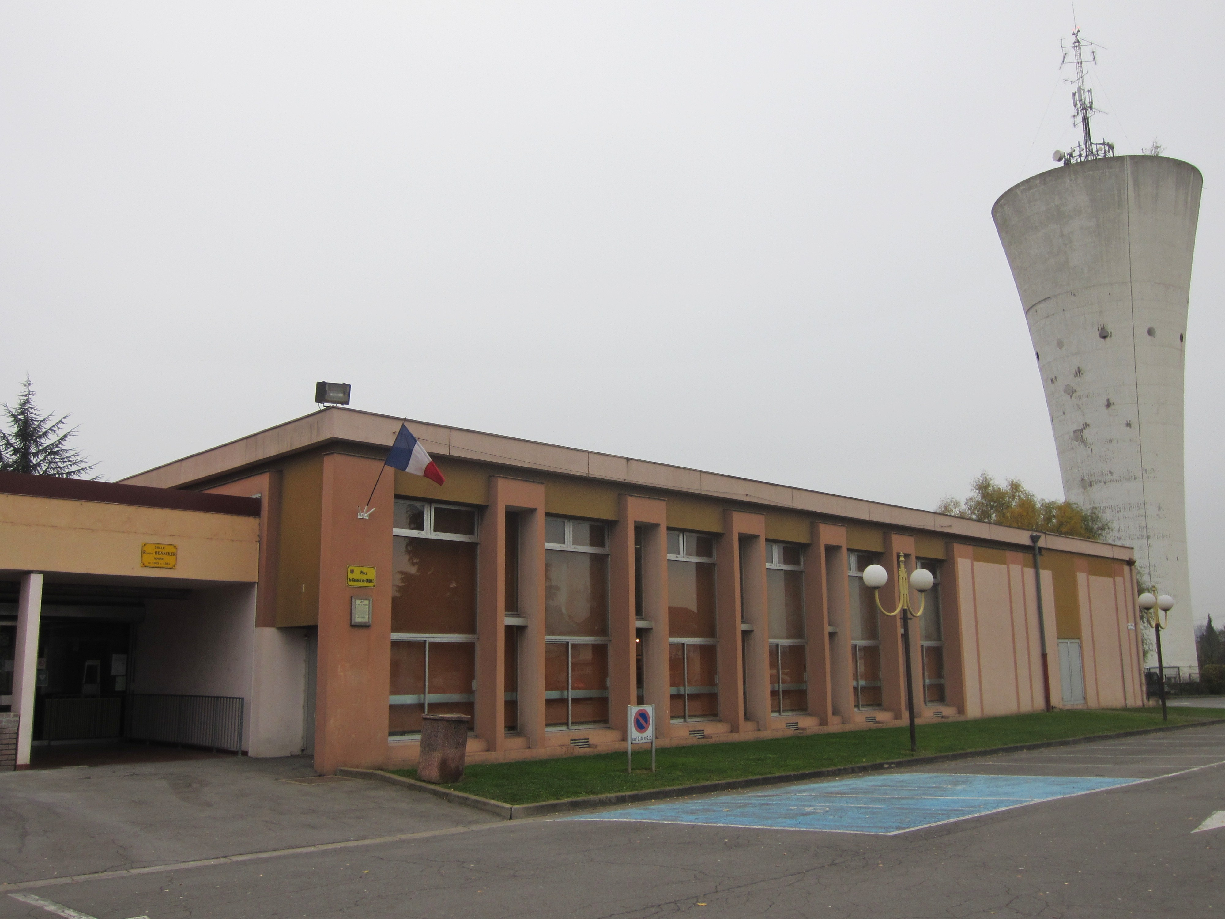 Description salle fetes Mondelange Date16 November 2011Sourcemon appareil photoAuthorAimelaimePermission (Reusing this file) salle fetes Mondelange